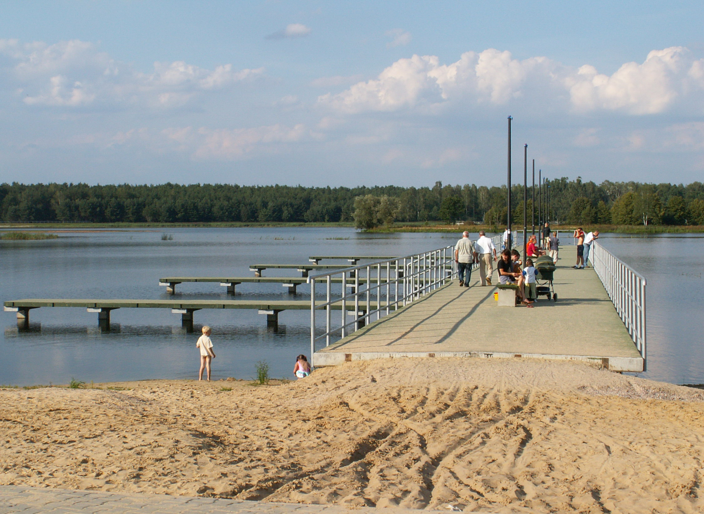 Lagoon on Belnianka River in Borków (Poland)